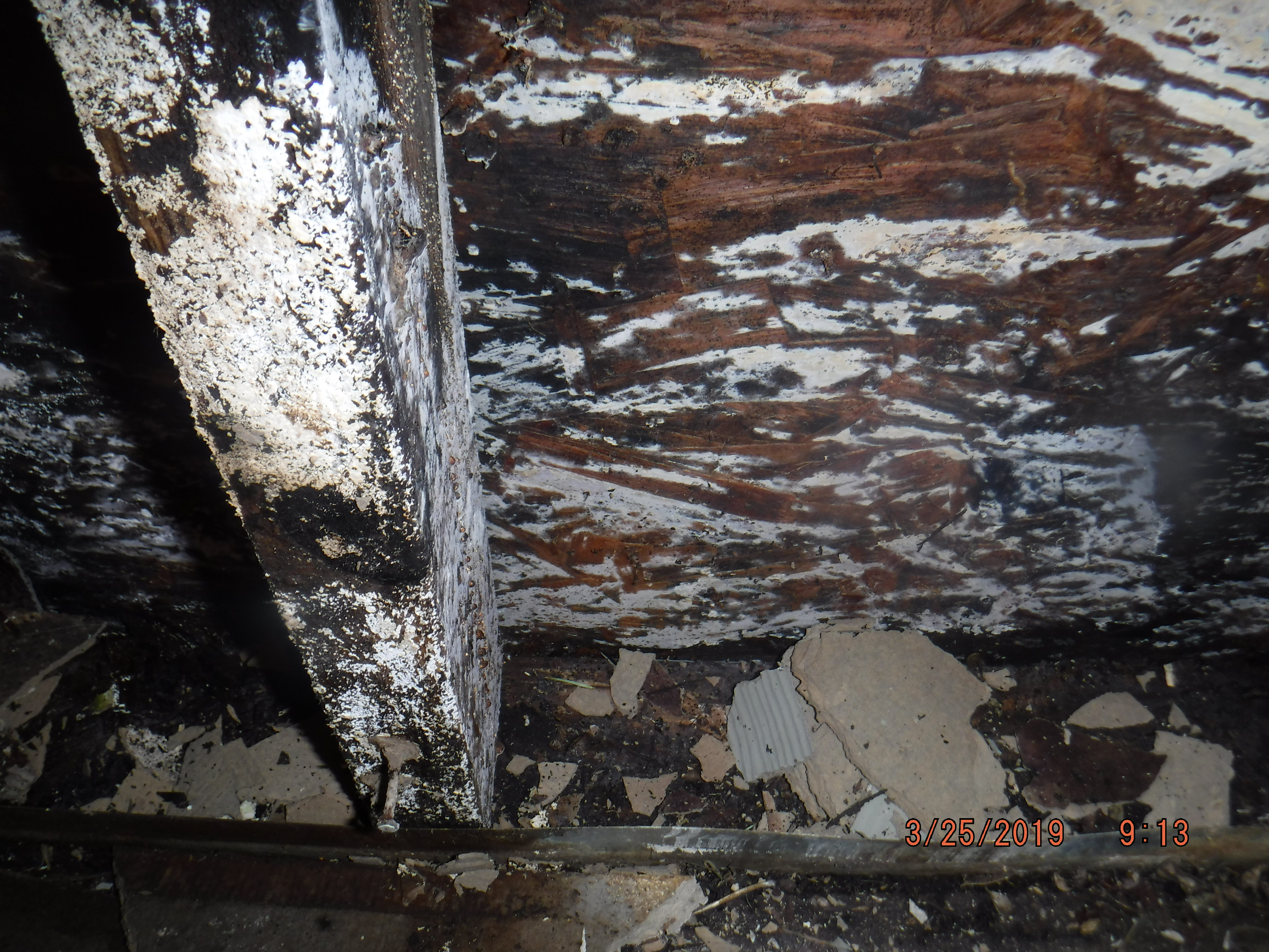 Dry rot and water damage on a sub-floor in a home in the northwest.